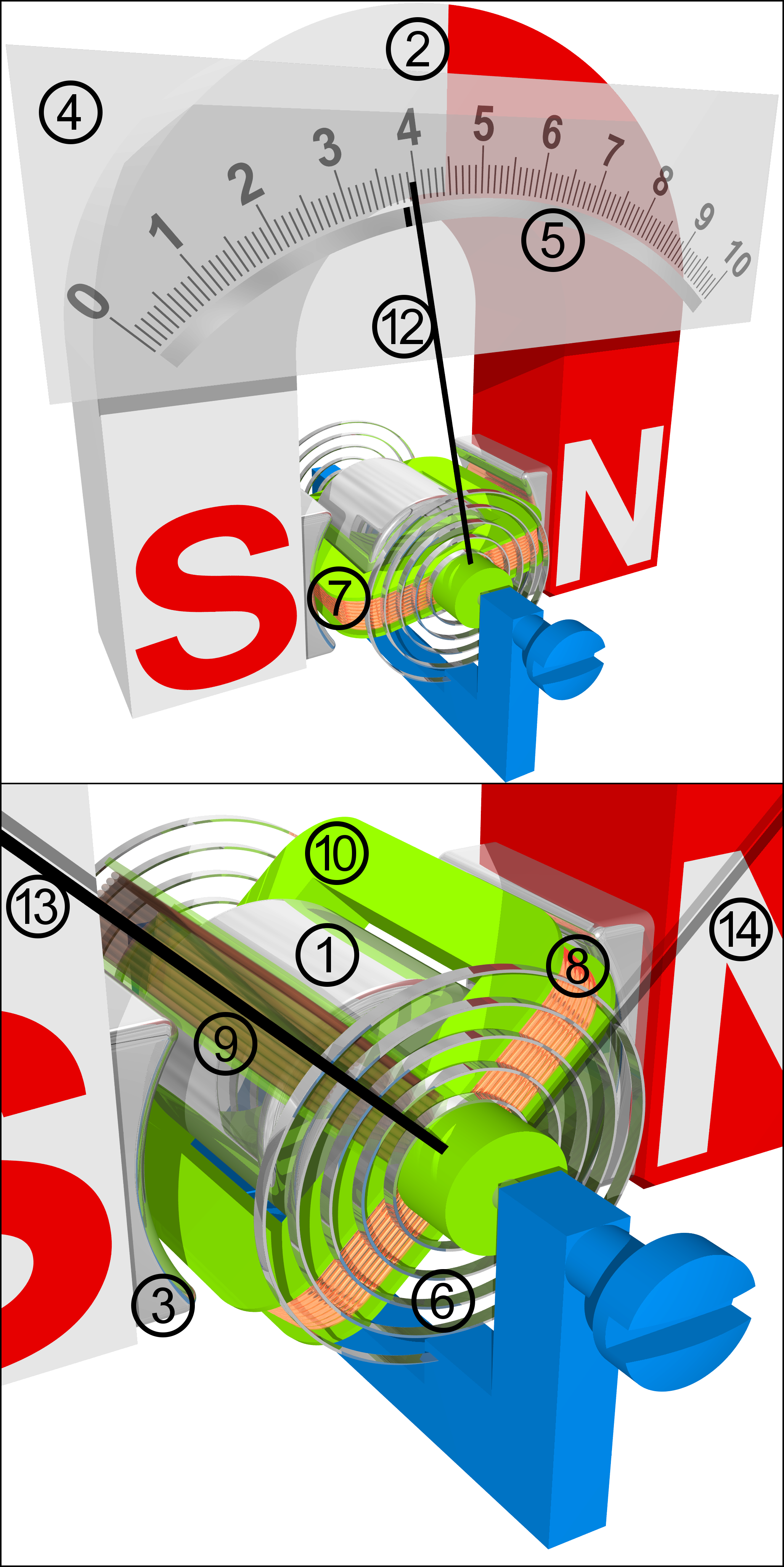 Technical realisation of a moving coil instrument. Legend for numbers in the illustration: 1) Core for moving coil, 2) Permanent magnet, 3) Pole "shoe" for focusing magnetic field, 4) Dial, 5) Aiming mirror on dial, 6) Coil spring, 7) Coil, 8) Coil at rest, 9) Coil at full deflection, 10) Coil yoke, 11) intentionally left out, 12) Pointer, 13) Pointer at rest, 14) Pointer at full deflection. Rendered using POV-Ray (